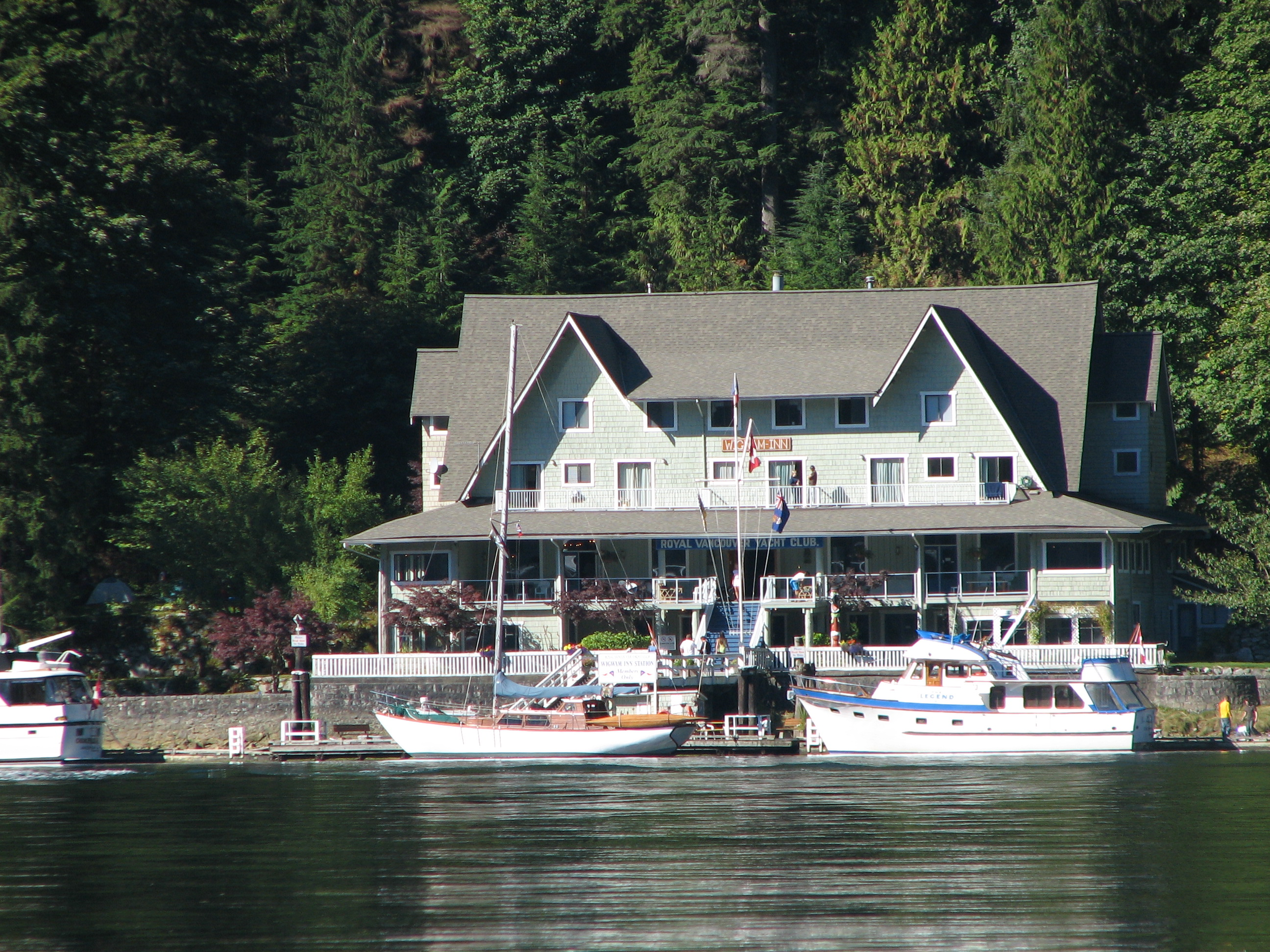 The Wigwam Inn at the head of Indian Arm off the Burrard Inlet north of Vancouver. Owned & run by the RVYC (Royal Vancouver Yacht Club).